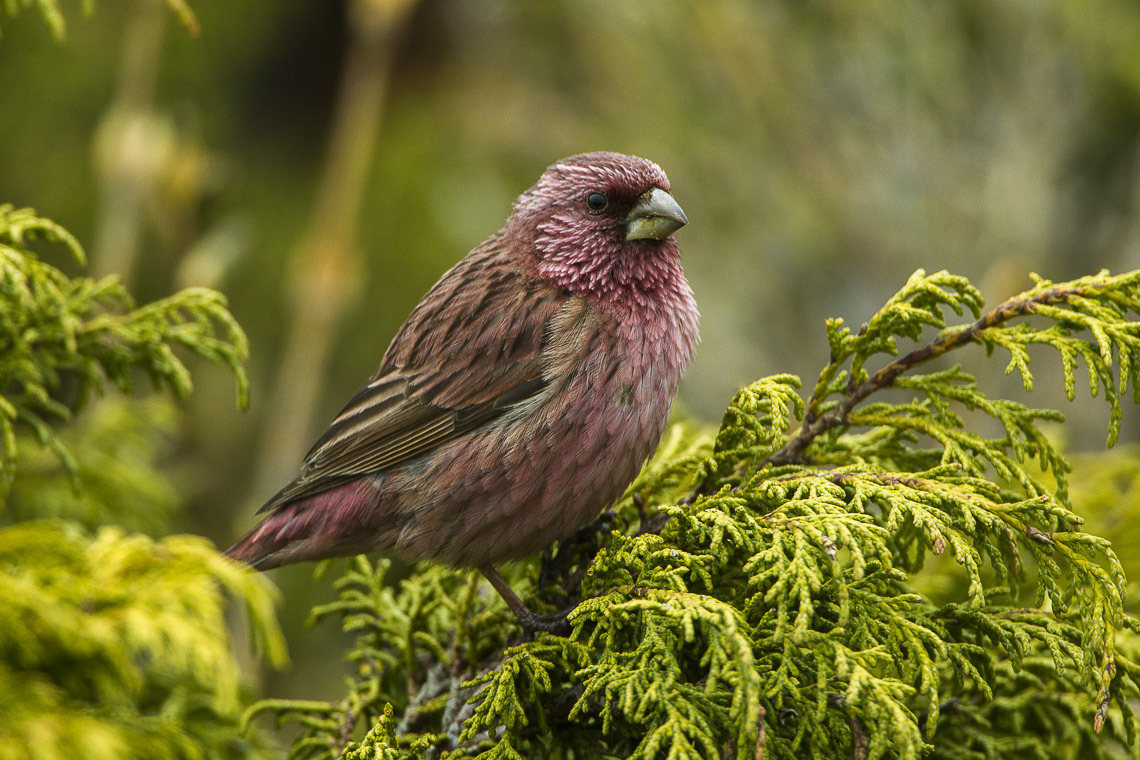 Red-mantled Rosefinch - Almaty - Kazakistan_S4E4053